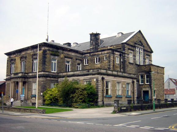 Waterloo Town Hall, Sefton, Merseyside, England.